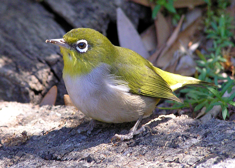 Zosterops lateralis chloronotus (Silvereye), Western Australia